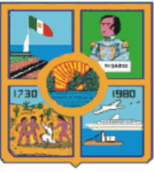 This is a shield image.